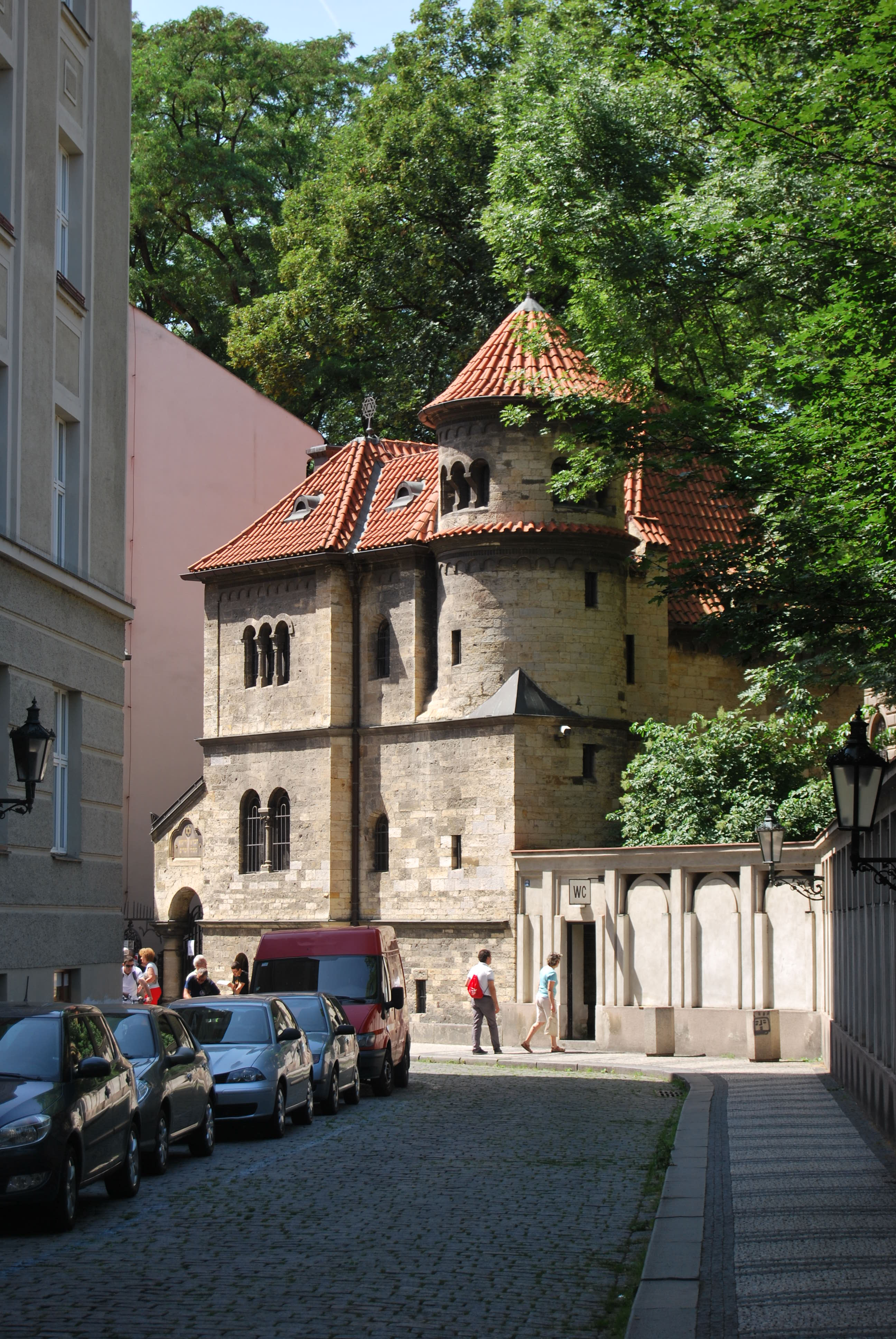 חברה קדישא בפראג